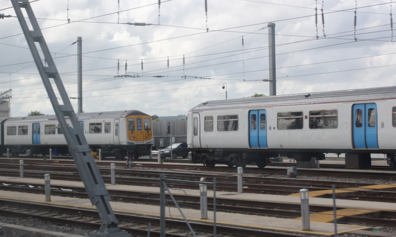 Redundant 'Thameslink' electric units 319439 and 319423 at Reading. They will soon be fitted with diesel engines and reclassified 769 for working partly-electrified Great Western Railway routes.